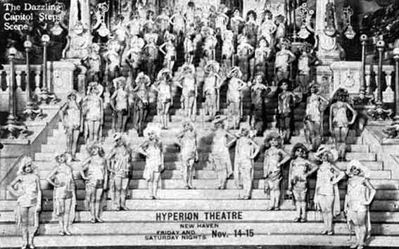 Photo of a scene from a tour of The Passing Show of 1913. Publicity photo taken in 1914.